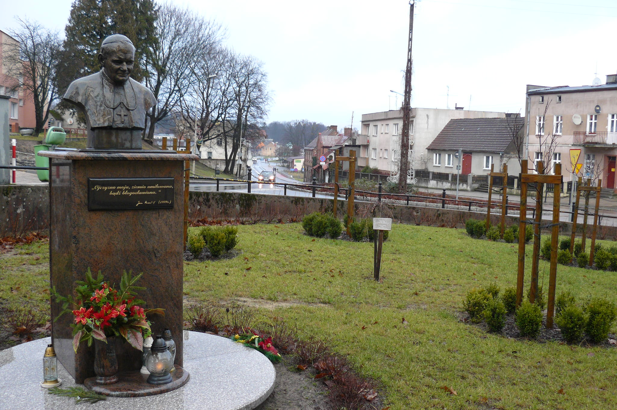 Człopa. The city center and a monument of John Paul II.